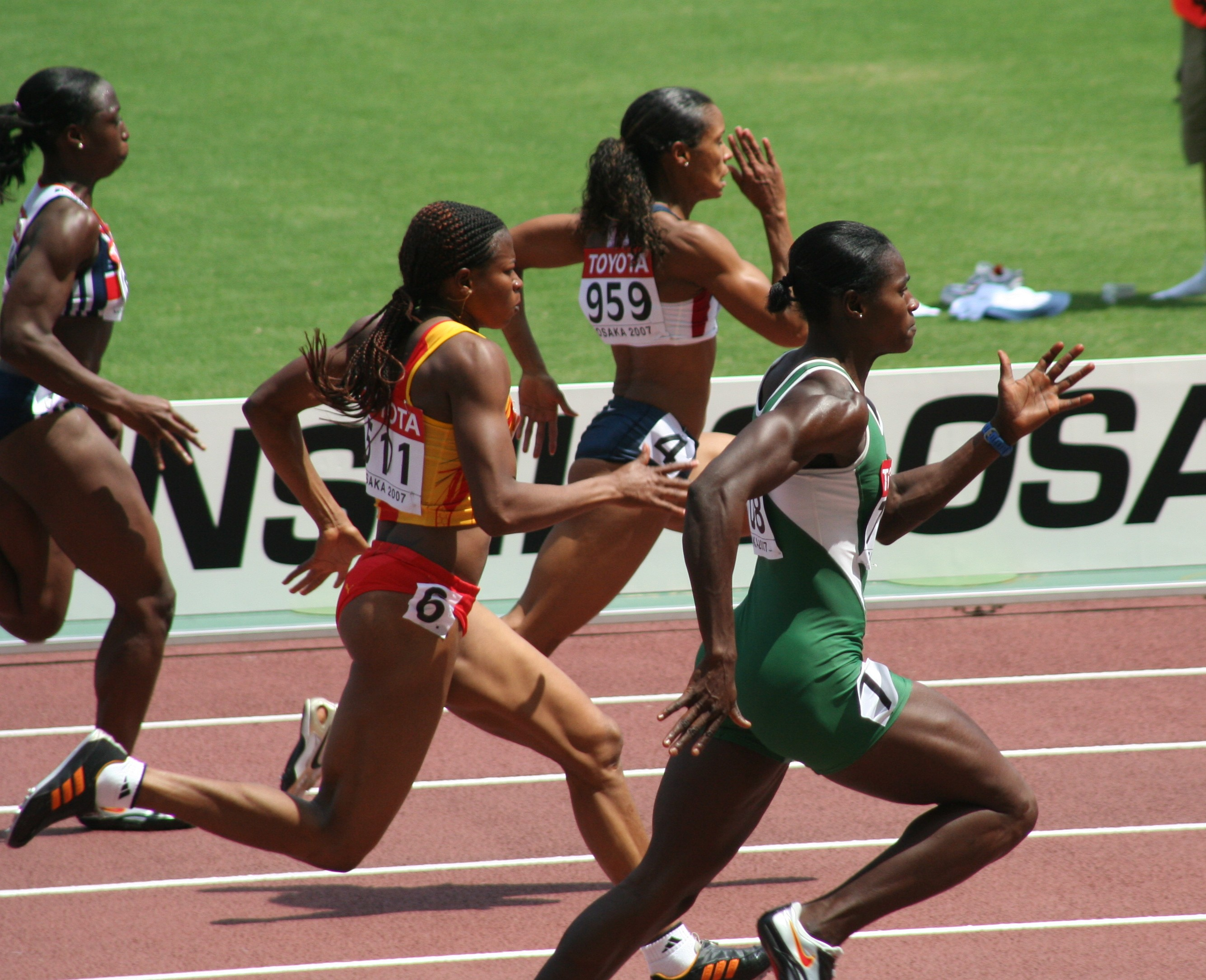 World Athletics Championships 2007 in Osaka - US athlete Torri Edwards (no. 959) running 100 meters during her first round heat. Also pictured: Vida Anim (no. 511), Oludamola Osayomi (right) and Jeanette Kwakye (left)